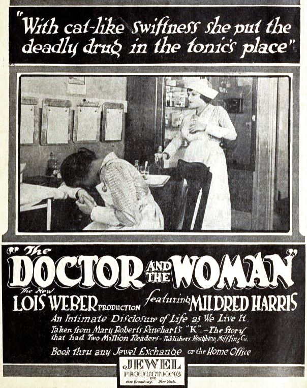 Advertisement for the American mystery film The Doctor and the Woman (1918) with Mildred Harris, on page 35 of the March 9, 1918 The Moving Picture Weekly.